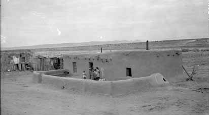 Aqua Fria street, Santa Fe, New Mexico circa 1900